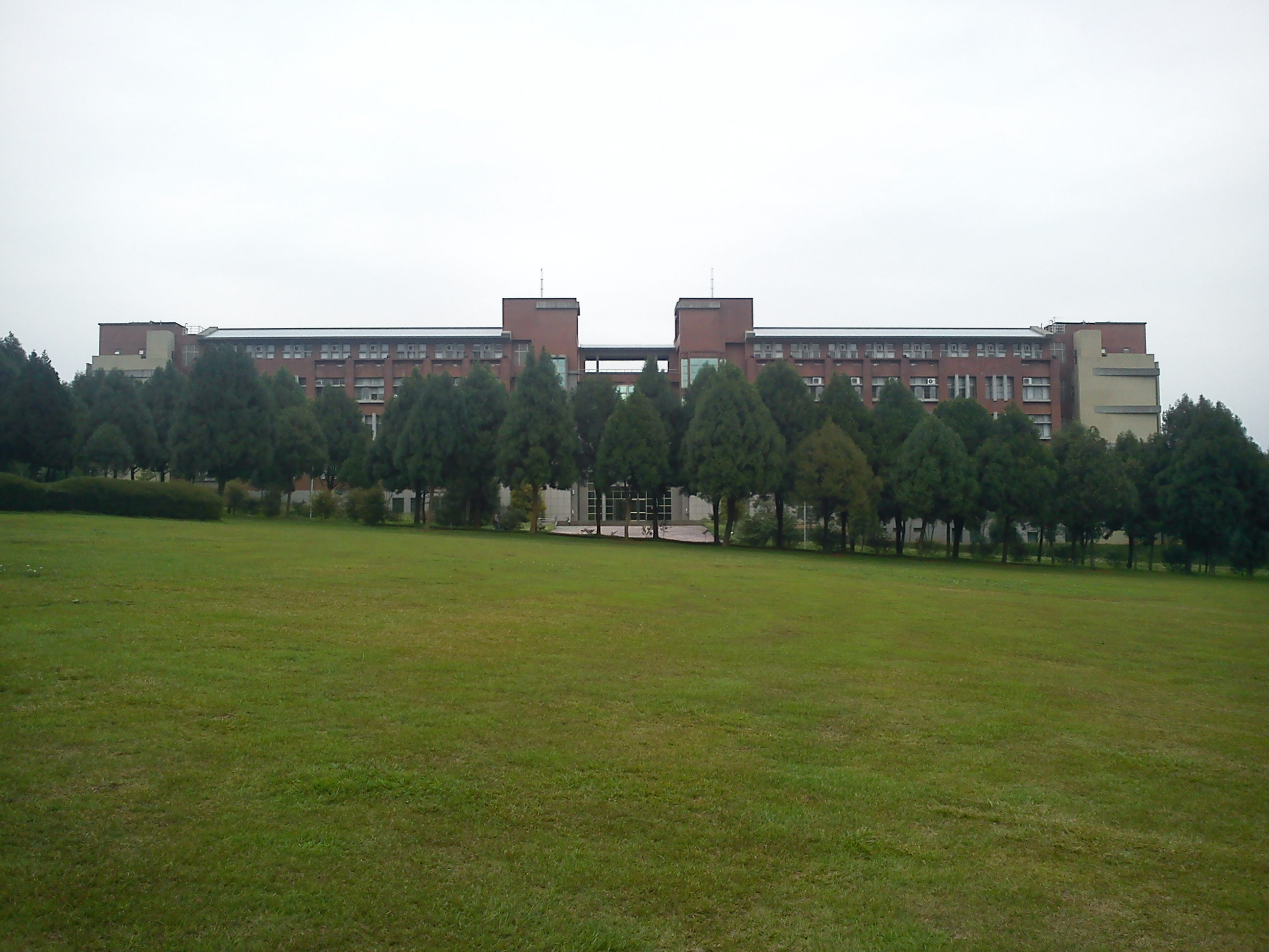 Buildiing of College of Management in National Chi Nan University,taken from the lawn nearby